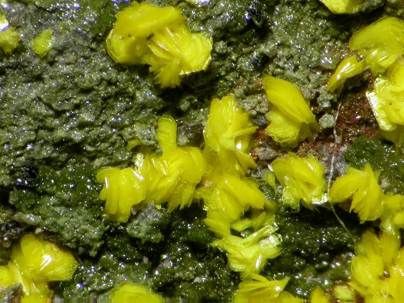 Tyuyamunite Locality: Ridenaur Mine (Ridenour Mine), Prospect Canyon District, Coconino County, Arizona, USA (Locality at ) Field of view 3 mm. Specimen and photo Leon Hupperichs.